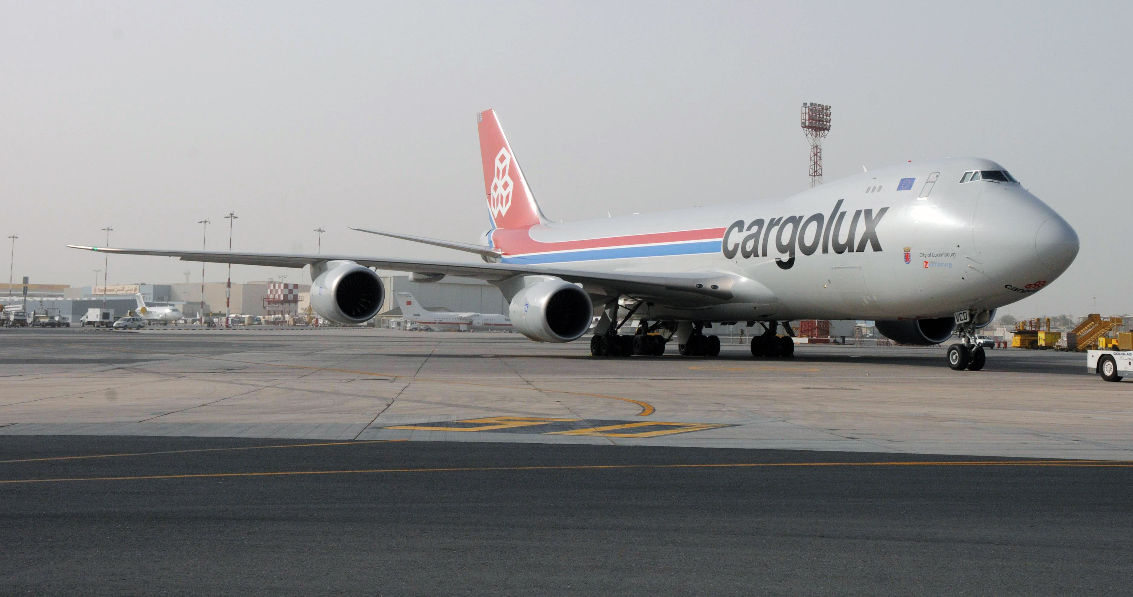 Cargoluxe 747-800F in Bahrain 2